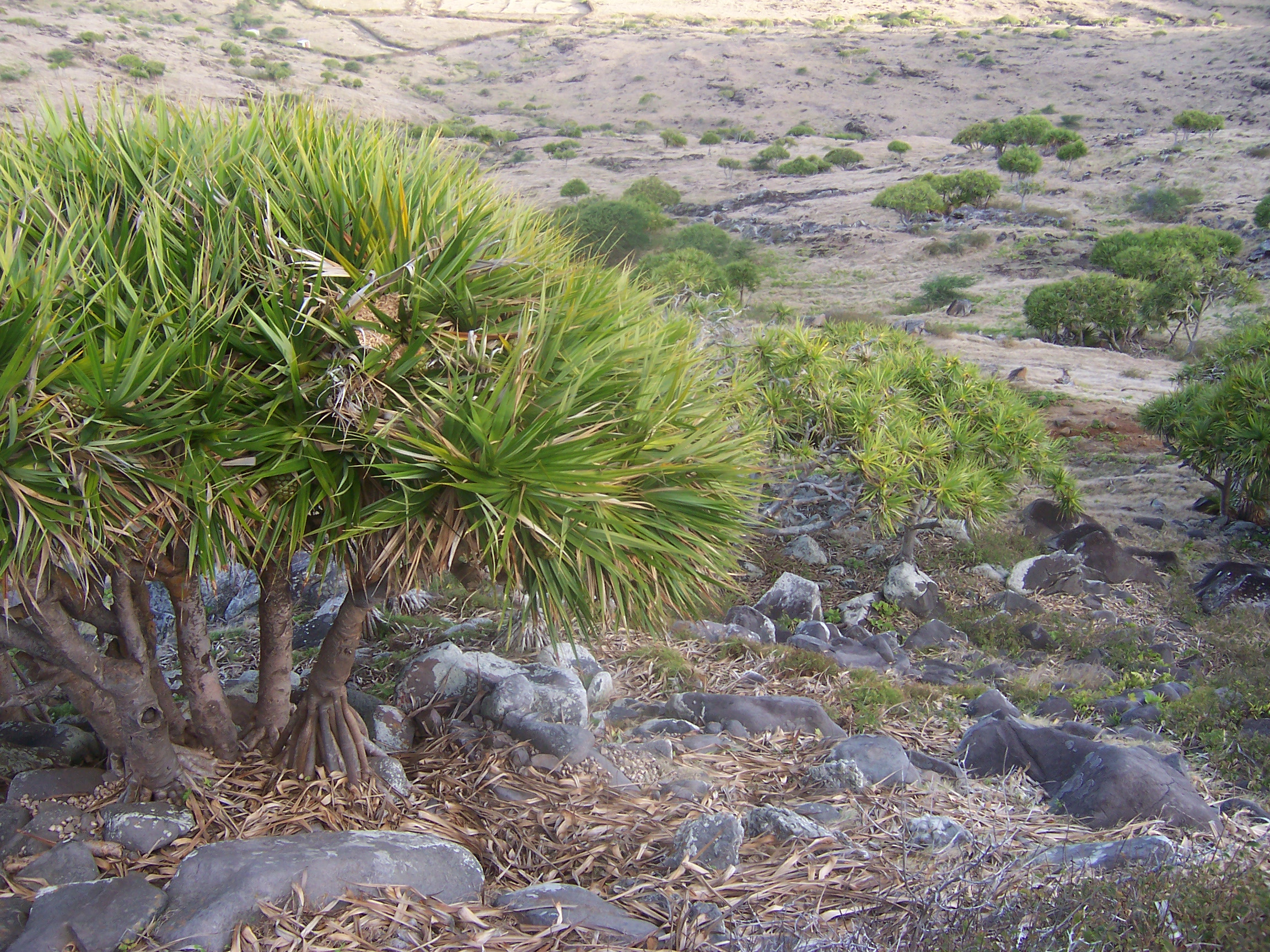 Pandanus heterocarpus (